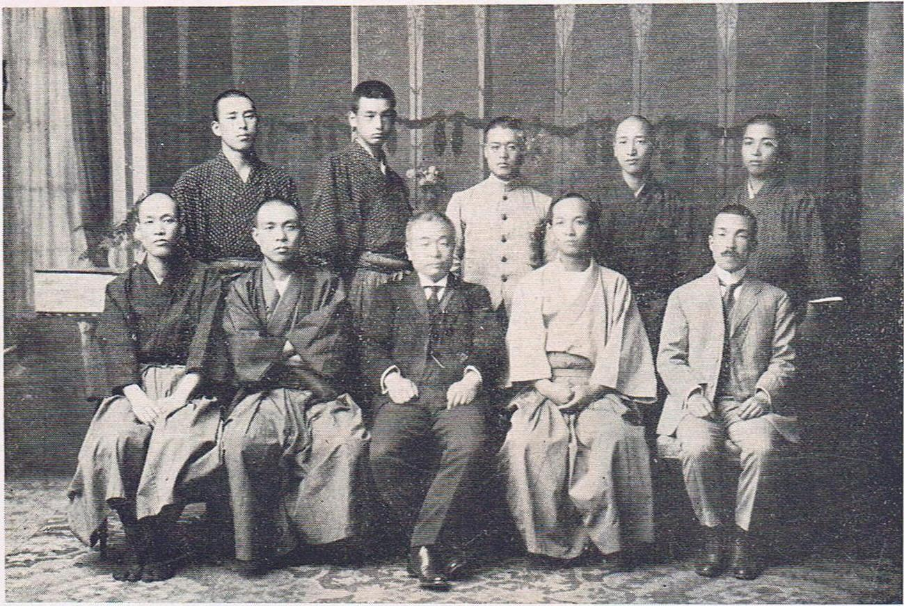 UEMURA Masahisa, TAKAKURA Tokutarou